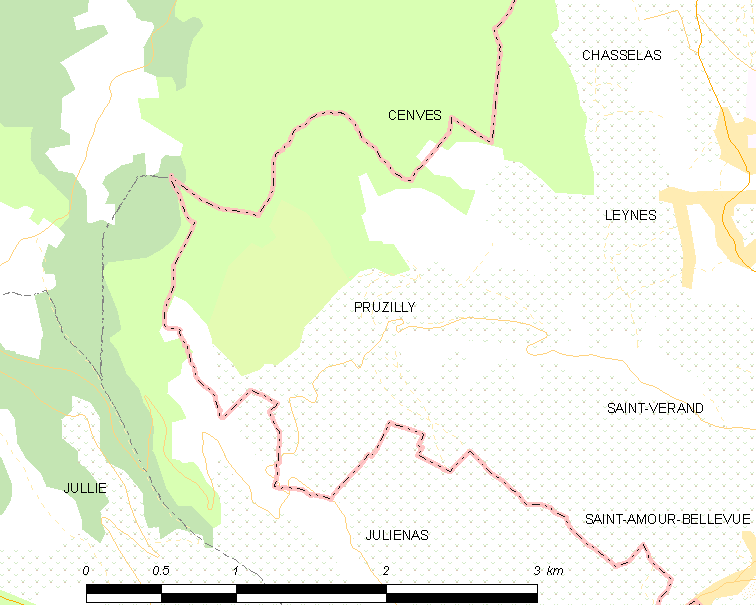 Map of French municipality